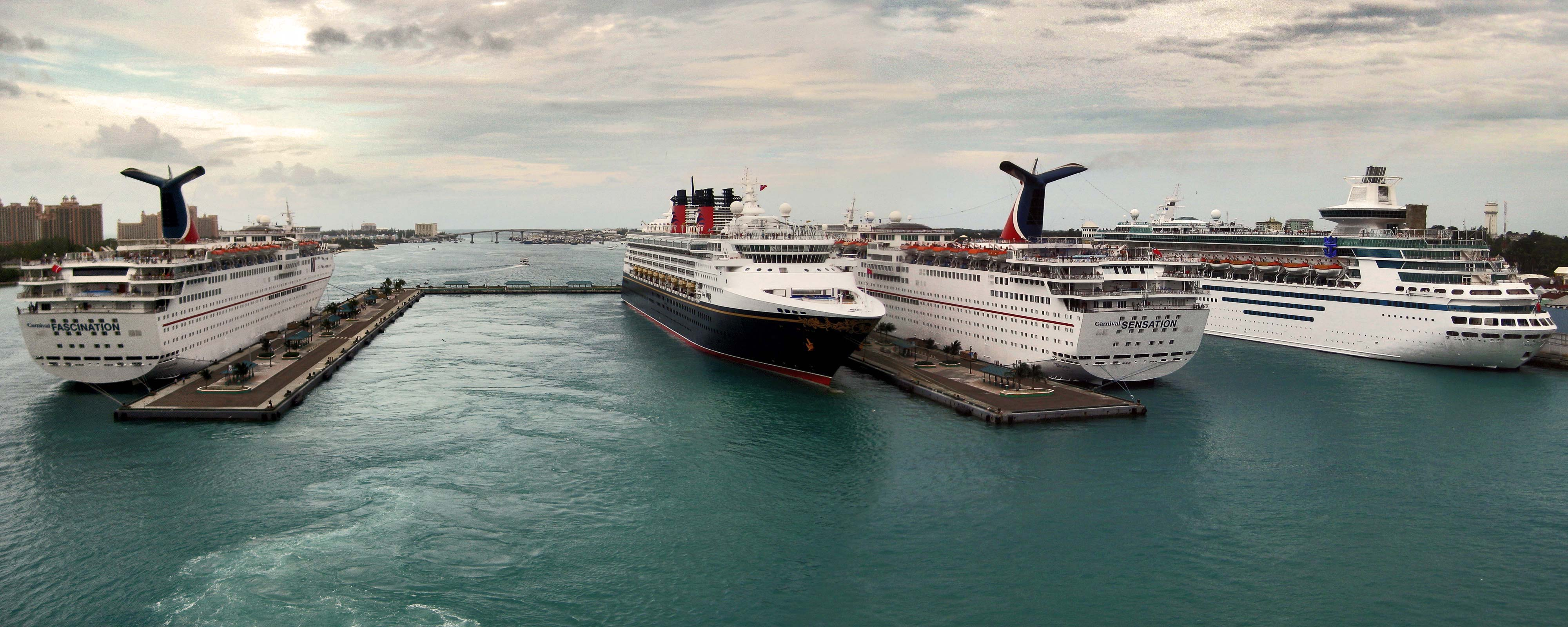 A panoramic view of Prince George Wharf, the facility serving passenger cruise ships in Nassau Harbour, off the island of New Providence in the Bahamas. Seen docked along the wharf, left to right, are the MS Carnival Fascination, MS Disney Wonder, MS Carnival Sensation, and Royal Caribbean International's MS Majesty Of The Seas.